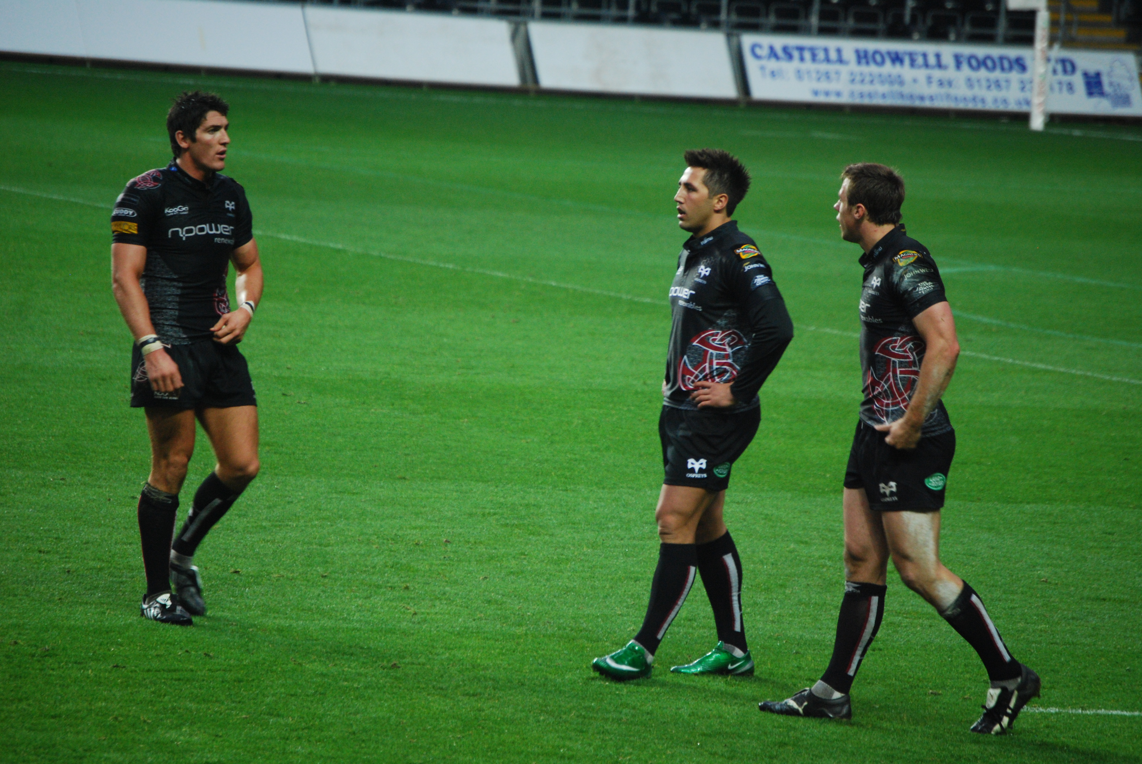 James Hook, Gavin Henson and Tommy Bowe discuss tactics.